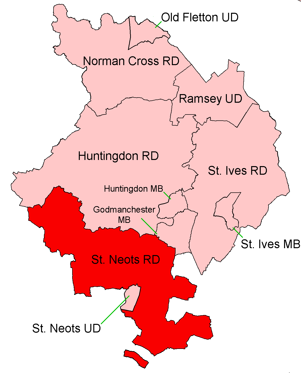 St Neots Rural District, shown within the administrative county of Huntingdonshire. All boundaries shown are correct for the period between 1935 and 1965 (except that Huntingdon & Godmanchester MBs merged in 1961).